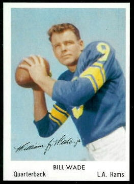 A 1959 promotional image of Los Angeles Rams player Bill Wade.